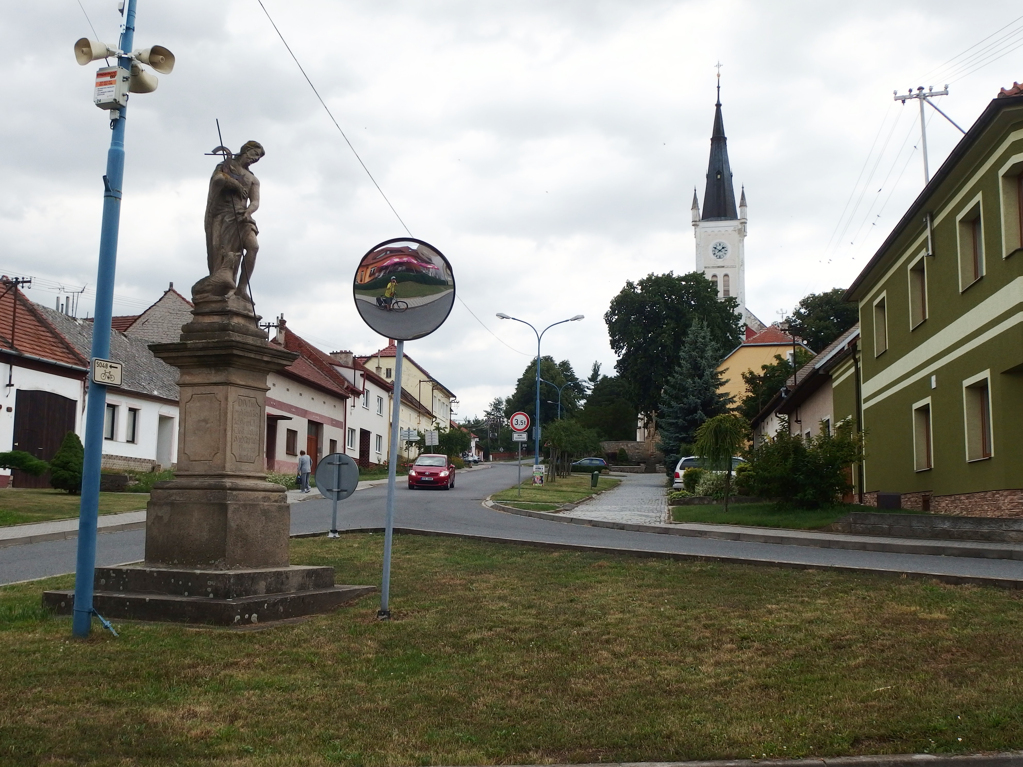 Ostrožská Lhota, Uherské Hradiště District, Czechia.